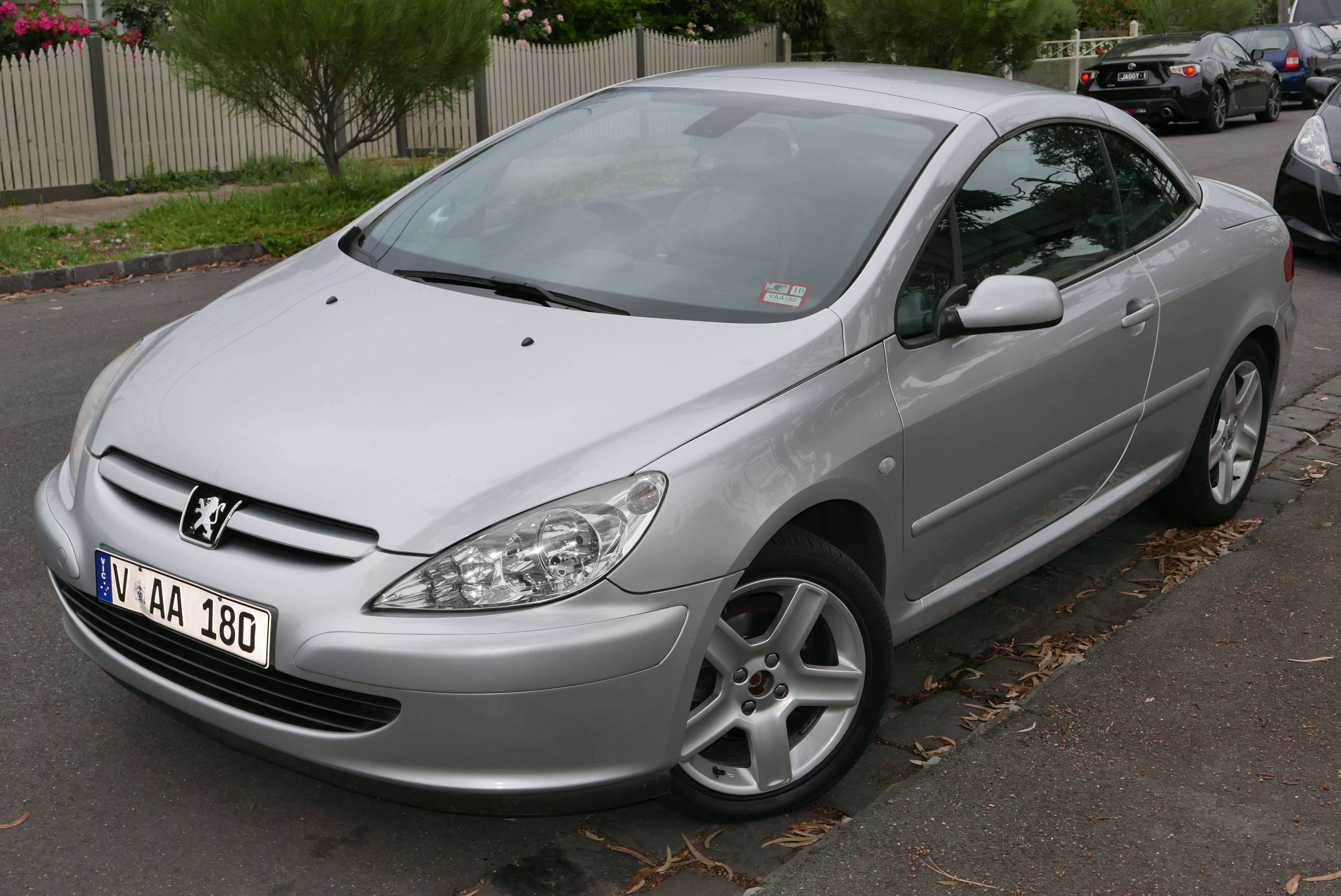 2005 Peugeot 307 (T5 MY03) CC Sport convertible. Photographed in Northcote, Victoria, Australia. Vehicle registration enquiry results Jurisdiction Victoria Registration VAA180 Chassis code VF33BRFNF84047968 Engine code LH2Z1278966 Compliance date 2005-09 Year of manufacture 2005